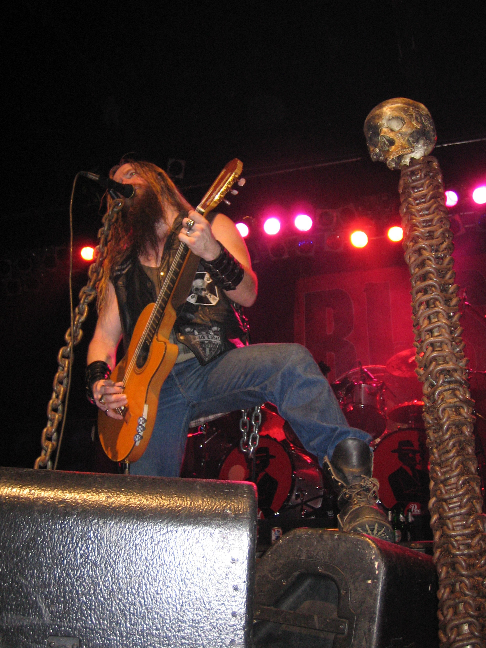 Zakk Wylde live (Recorded at The Electric Factory in Philadelphia, PA)